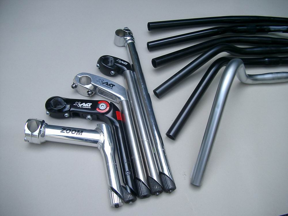 Bicycle handlebars and stems